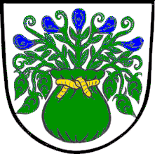 Coat of Arms of Fretterode